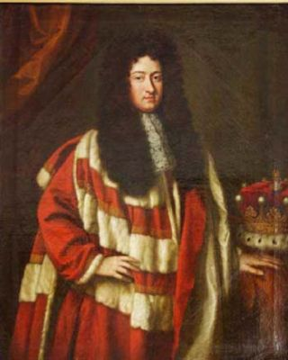 John Egerton, 3rd Earl of Bridgwater